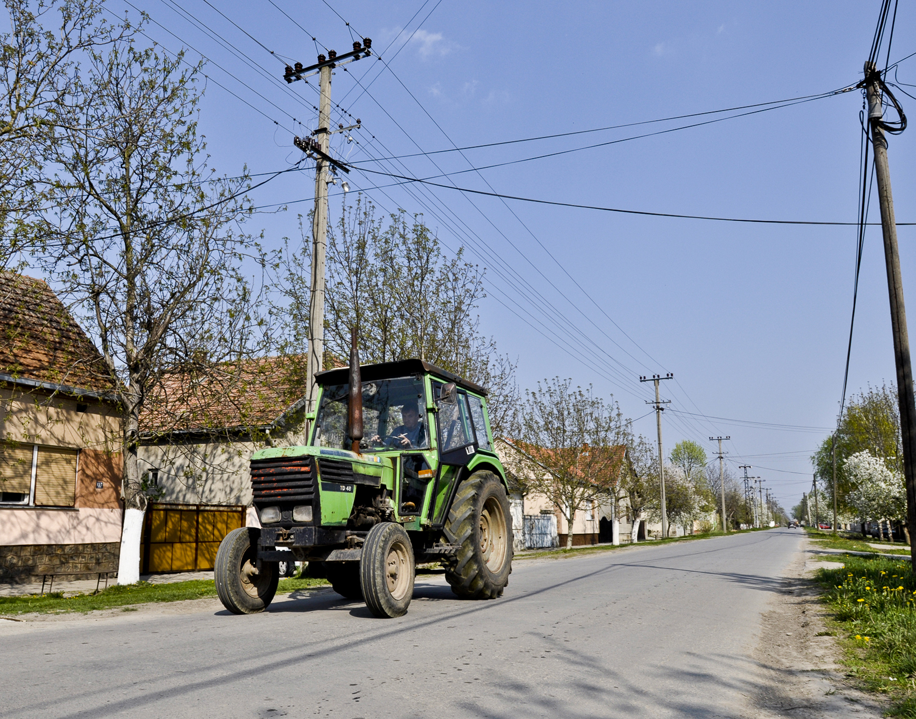 Dušan Lazić 2009, Vojka, Serbia. A neighbor drives a tractor near the home of Dušan Lazić, Global Lives Project participant in Vojka, Serbia. Photograph by Hes Mundt.